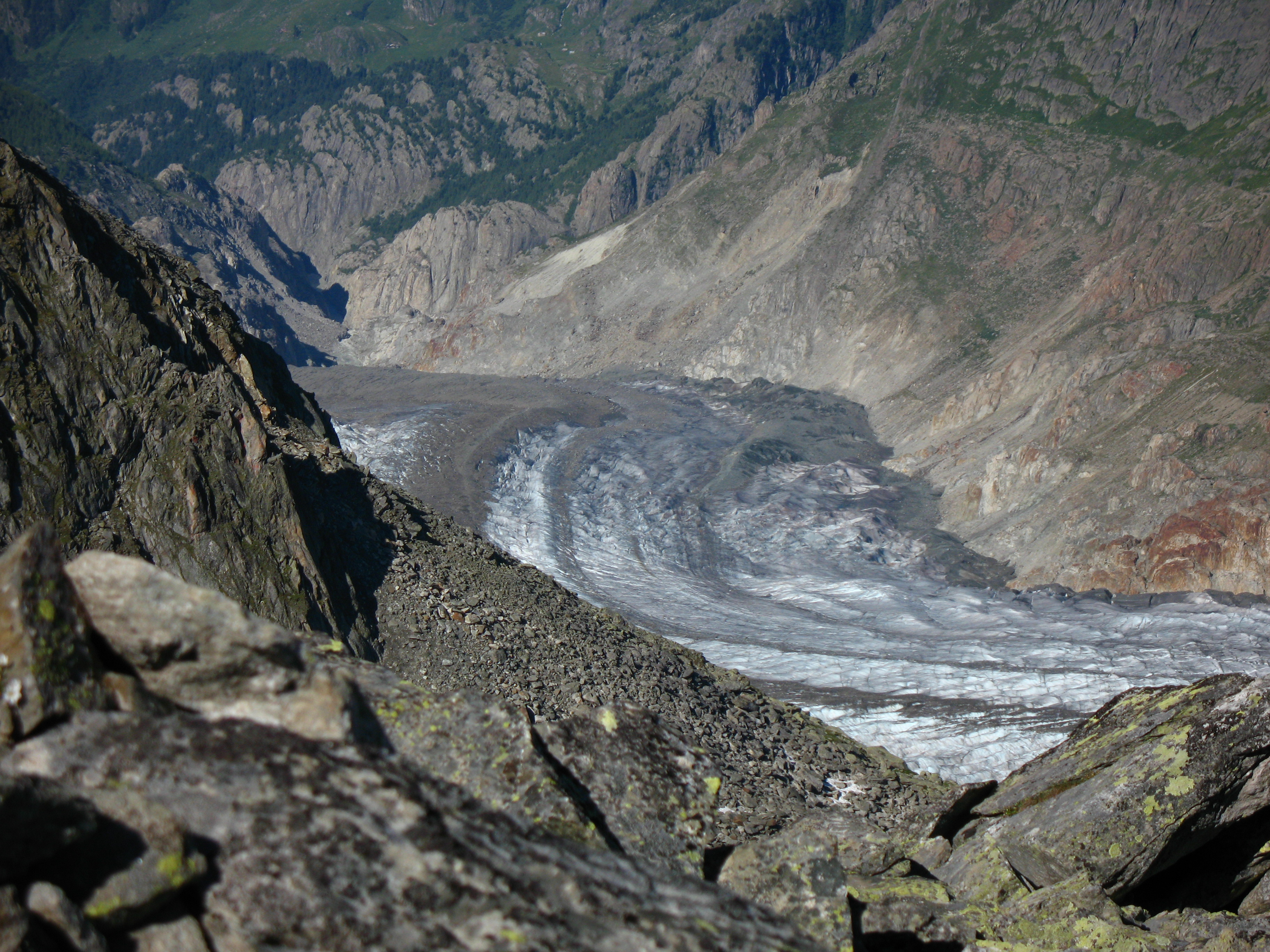 Aletsch Glacier viewed from Eggishorn, Fiescheralp, Switzerland